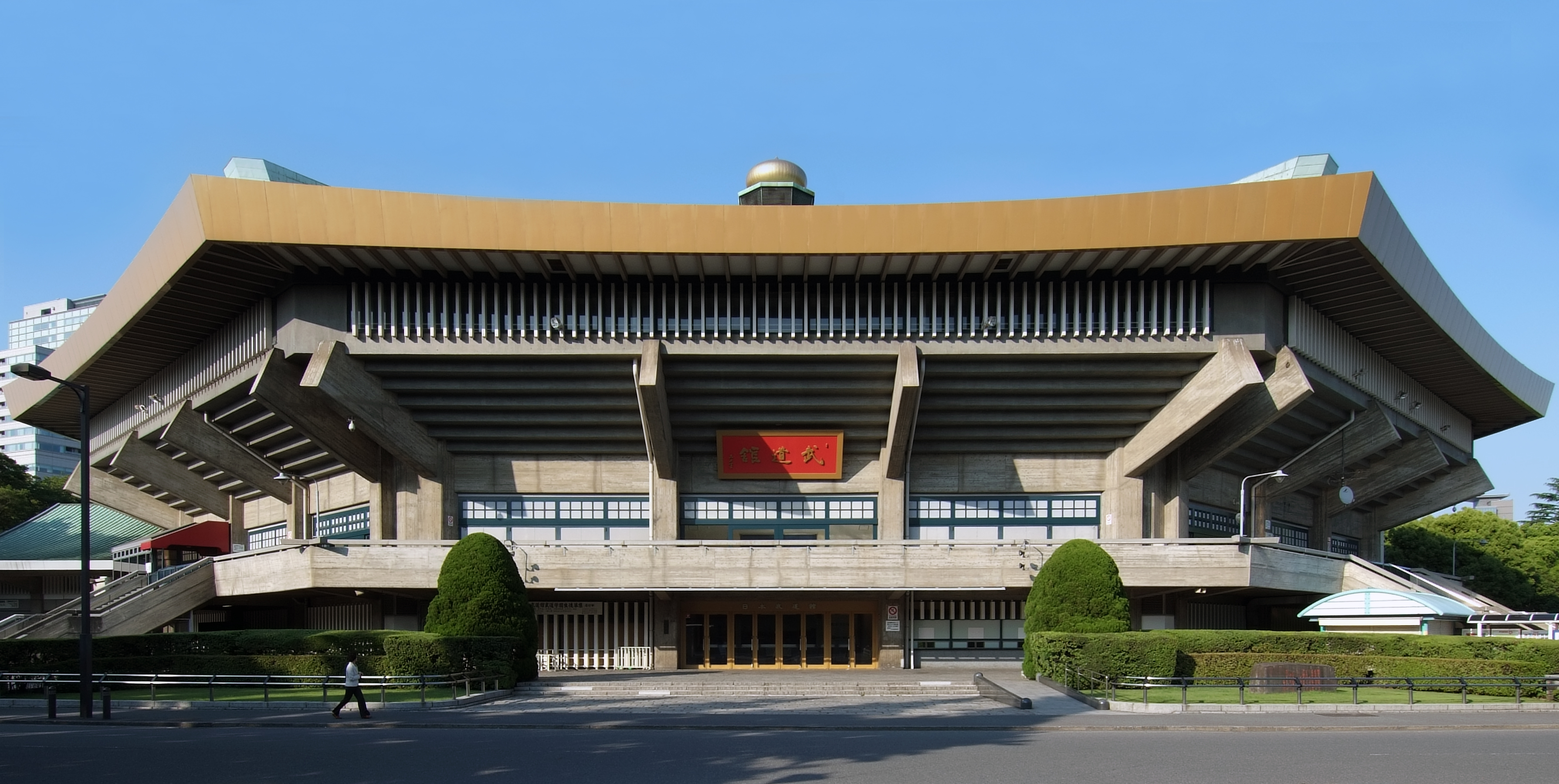 Nippon Budokan, Chiyoda-ku Tokyo Japan, designed by Mamoru Yamada in 1964.